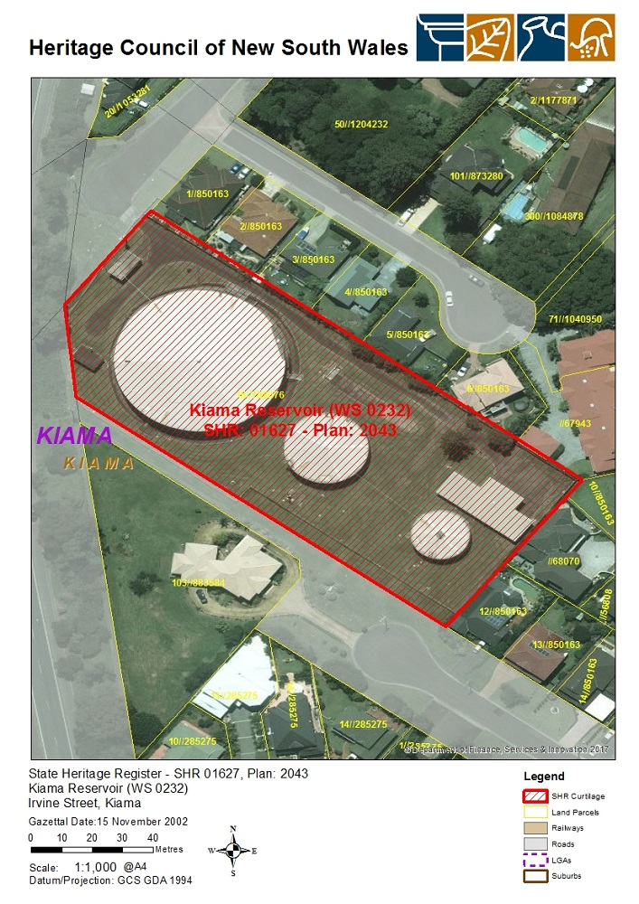 Kiama Reservoirs: SHR Plan 2043